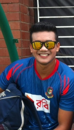 National Fast Bowling Coach,Bangladesh Cricket board. Helping to enhance Performance.